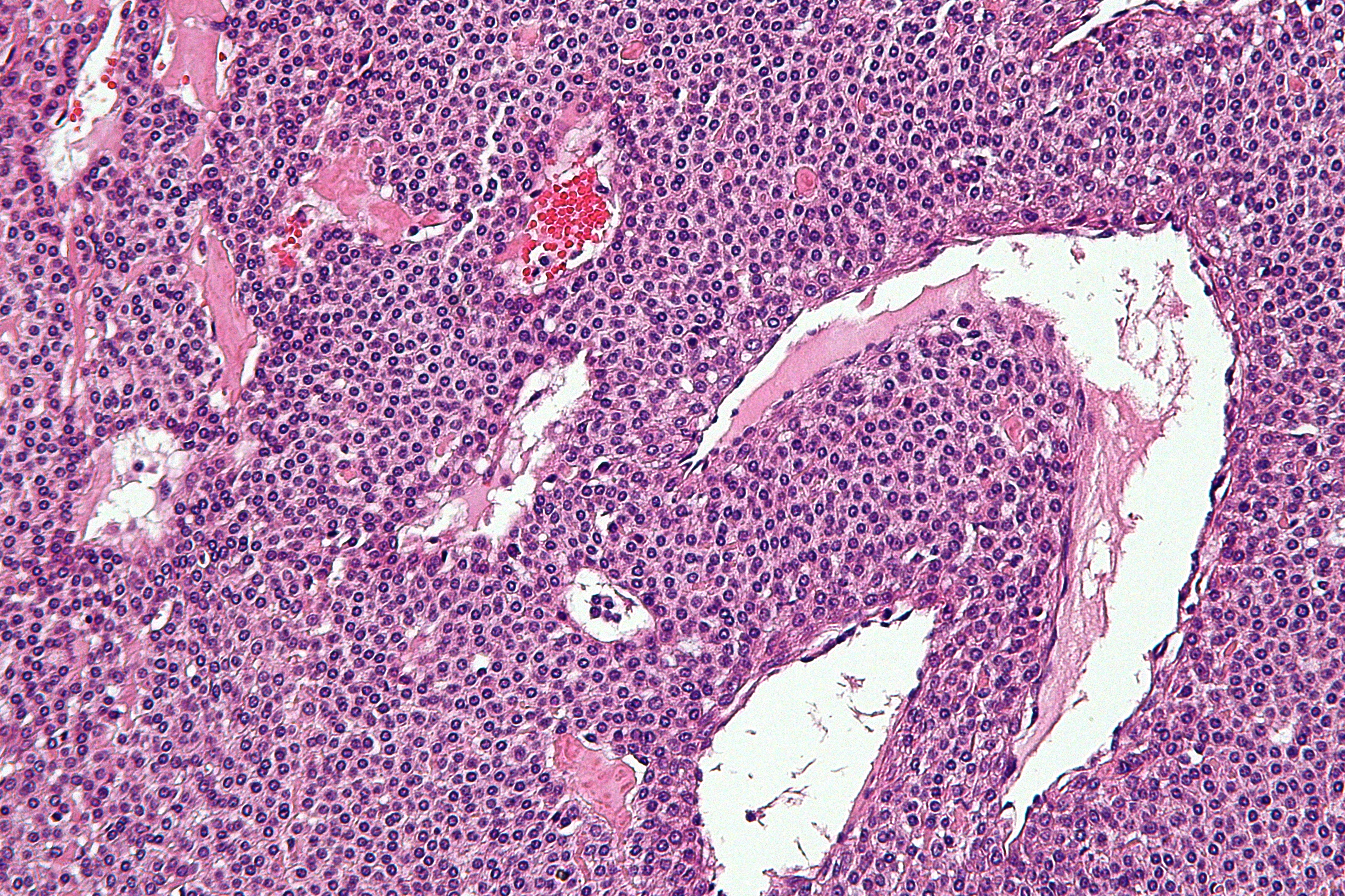 High magnification micrograph of a glomus tumour, also written glomus tumor. H&E stain. Related images Intermed. mag. High mag. Very high mag. Very high mag.